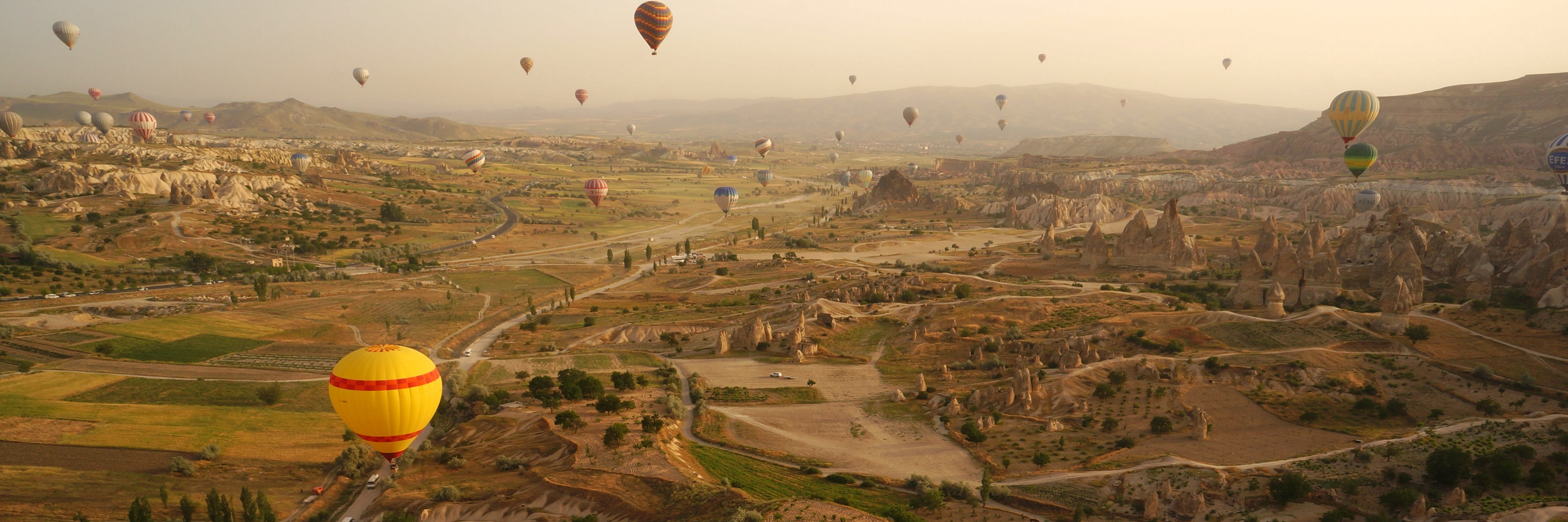 Balloon flight in Cappadocia, Turkey.